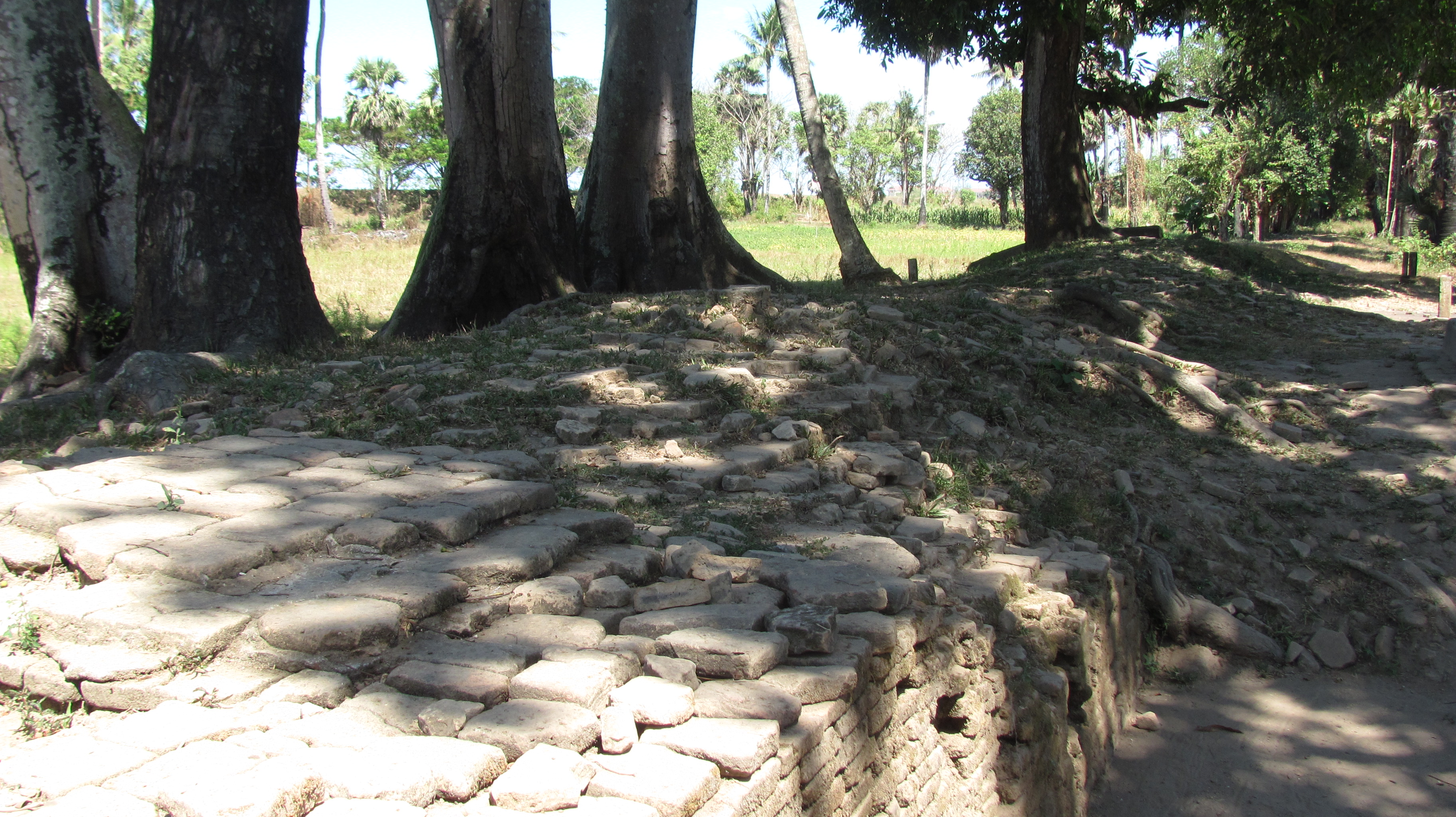 Wall being renovated, Fort "Benteng Samba Opu", Sungguminasa near Makassar, Sulawesi, Indonesia